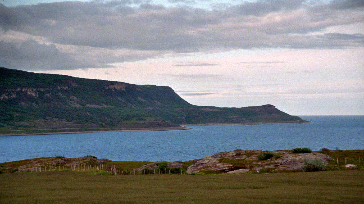 Tanafjord, viewed from national highway N98 crossing Ifjordfjell in Finnmark / Northern Norway